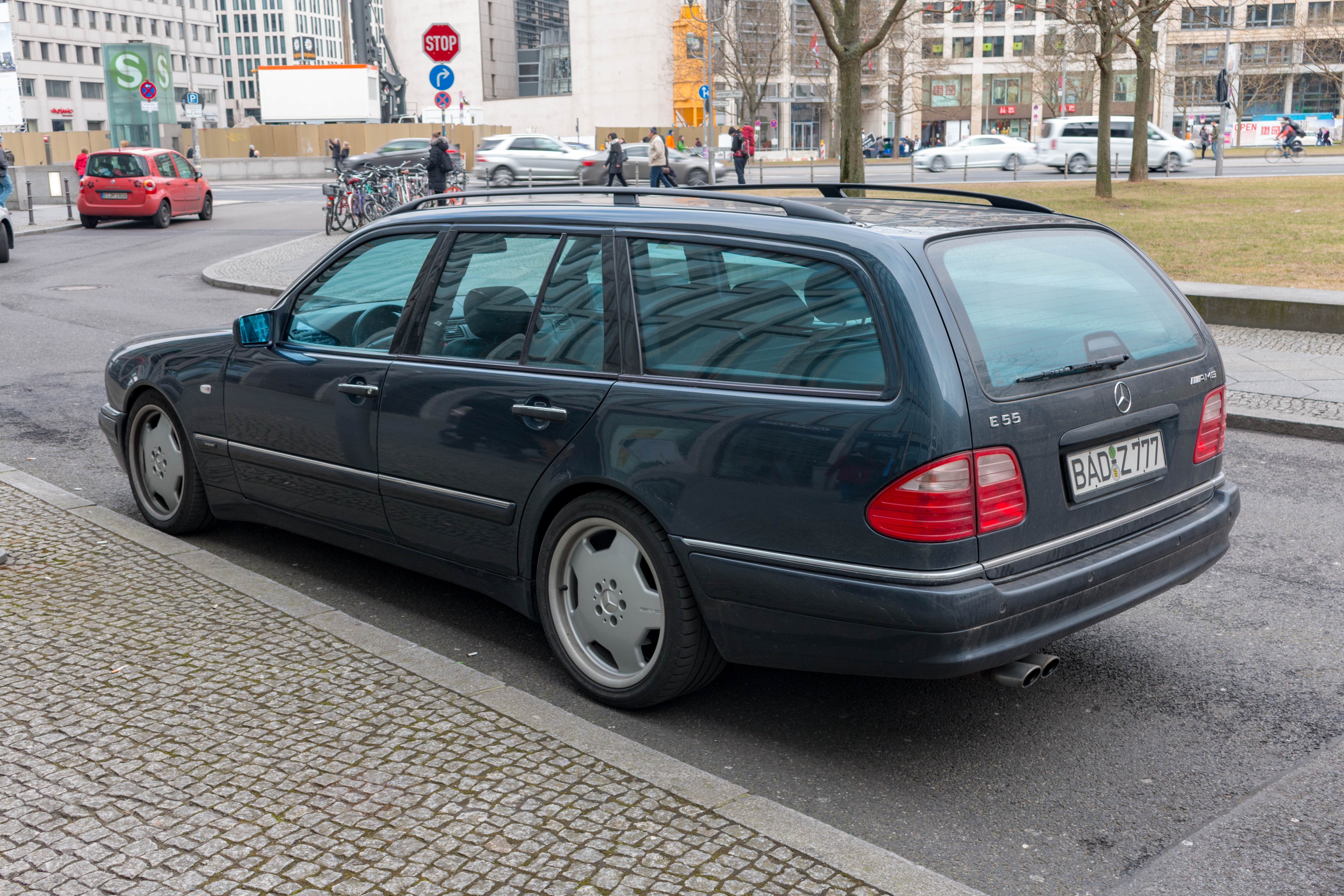 Mercedes-Benz E 55 AMG T